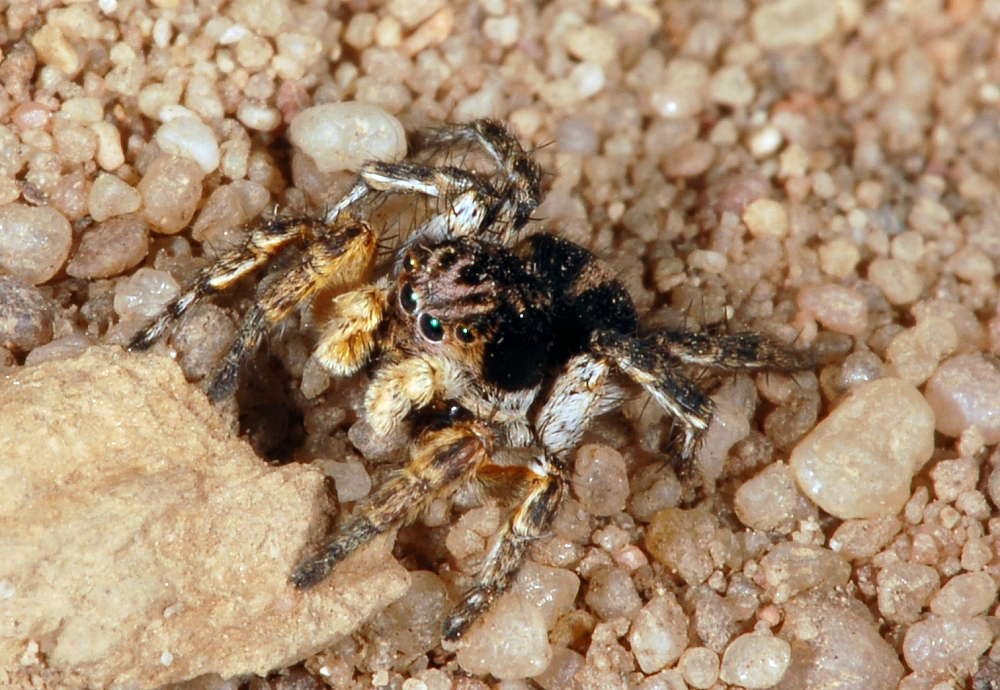 Aelurillus vinsignitus, Kelsterbach close to Frankfurt/Main, Germany